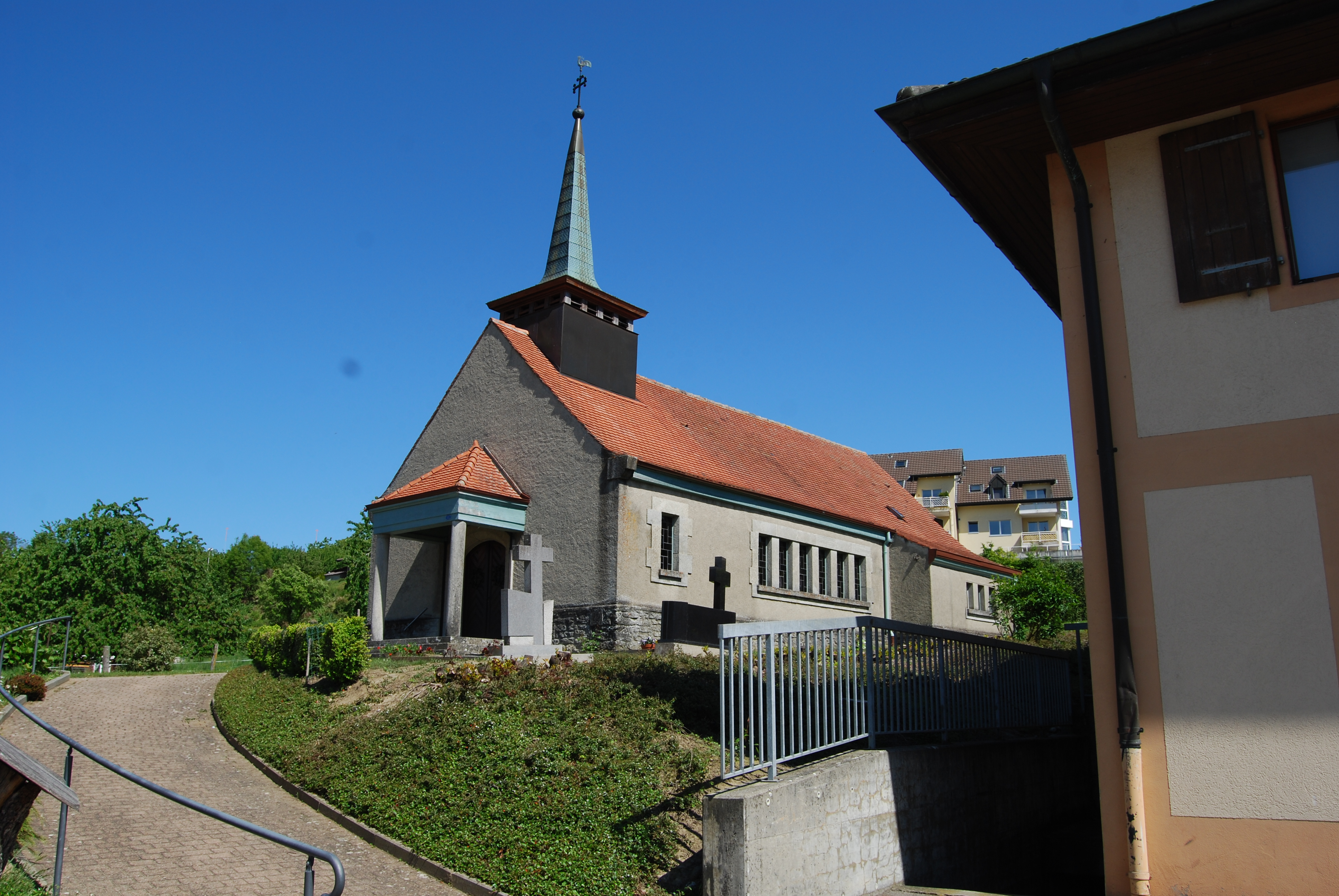 Church of Châbles, canton of Fribourg, Switzerland